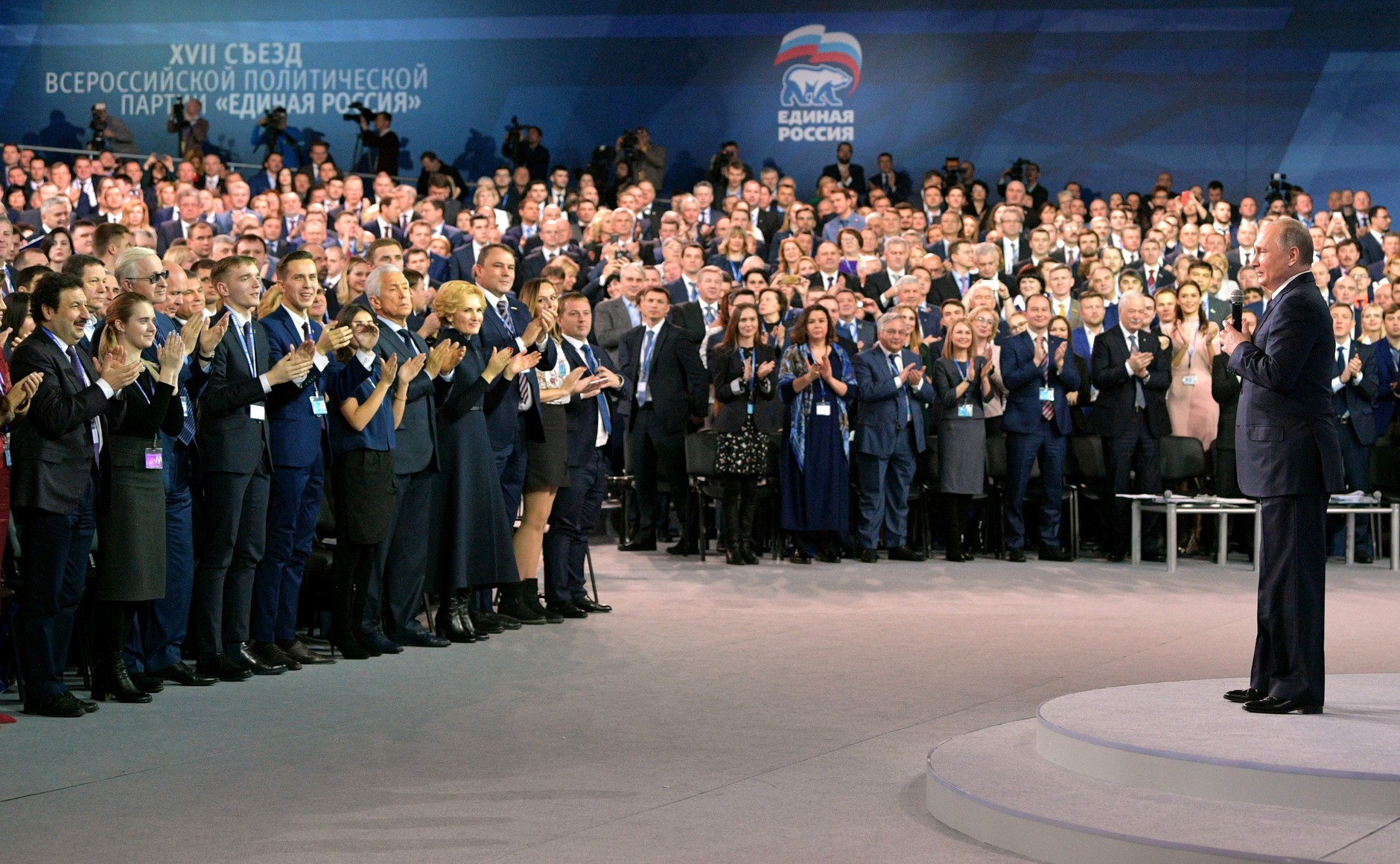 Putin on XVII congress of United Russia in 2017 year.